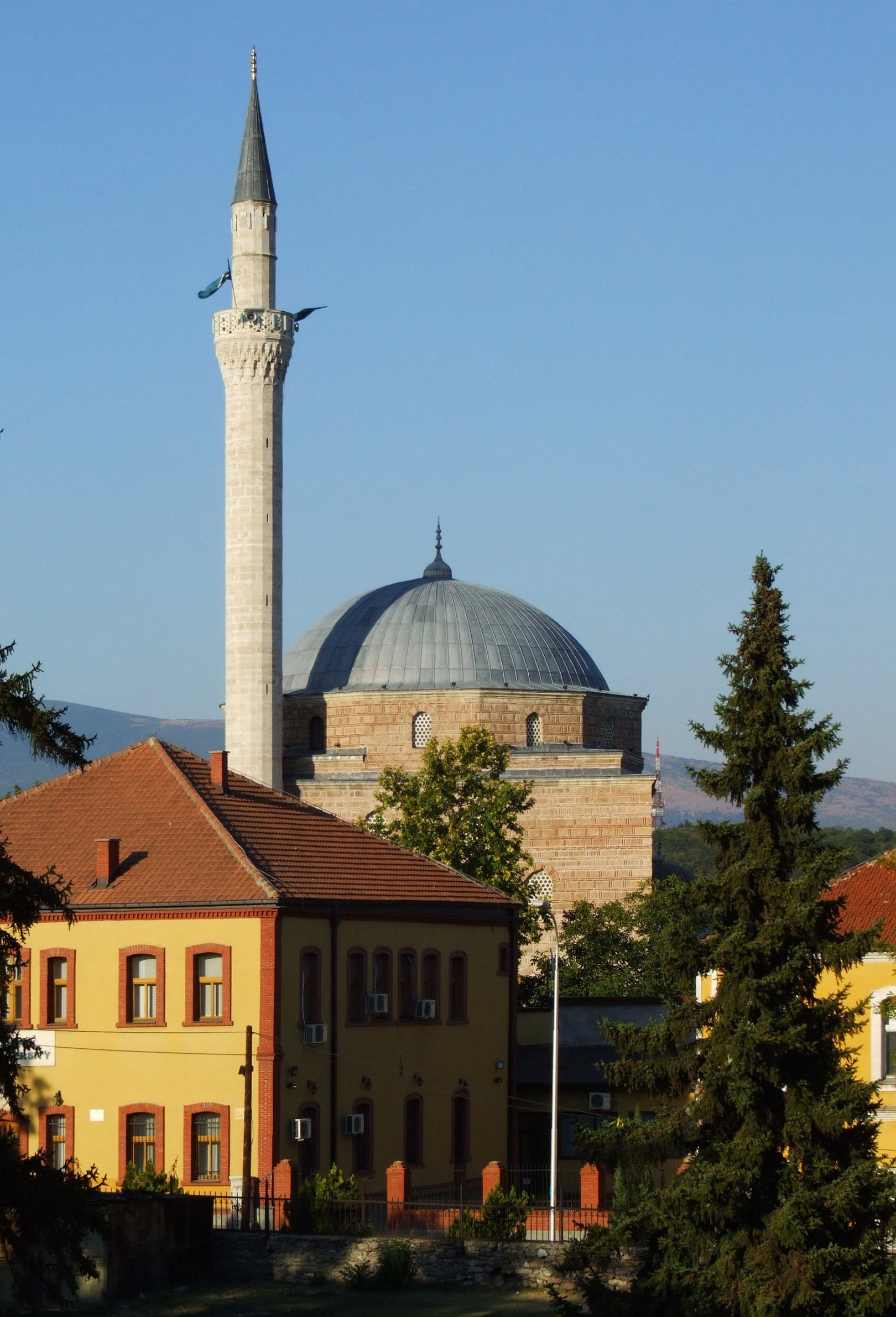 Mustafa Paşa Mosque, Skopje, Macedonia